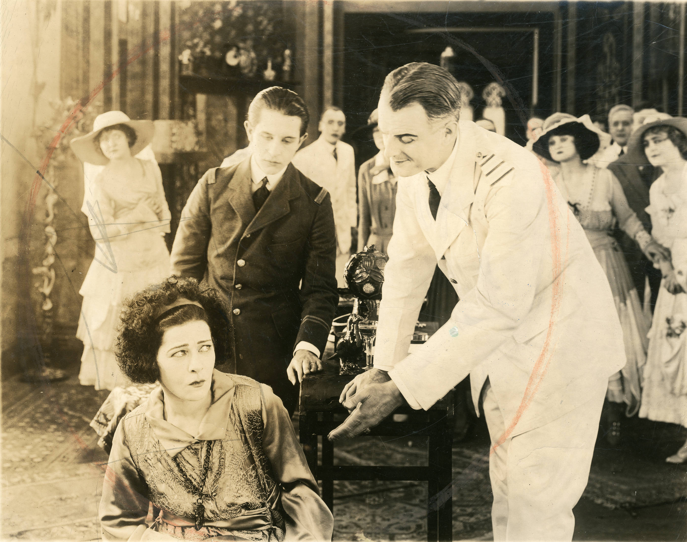 A scene from the American film Eye for Eye (1918). A Clemmer Cut for Dec. 8, 1918. Includes Alla Nazimova. Subjects: motion pictures, actresses